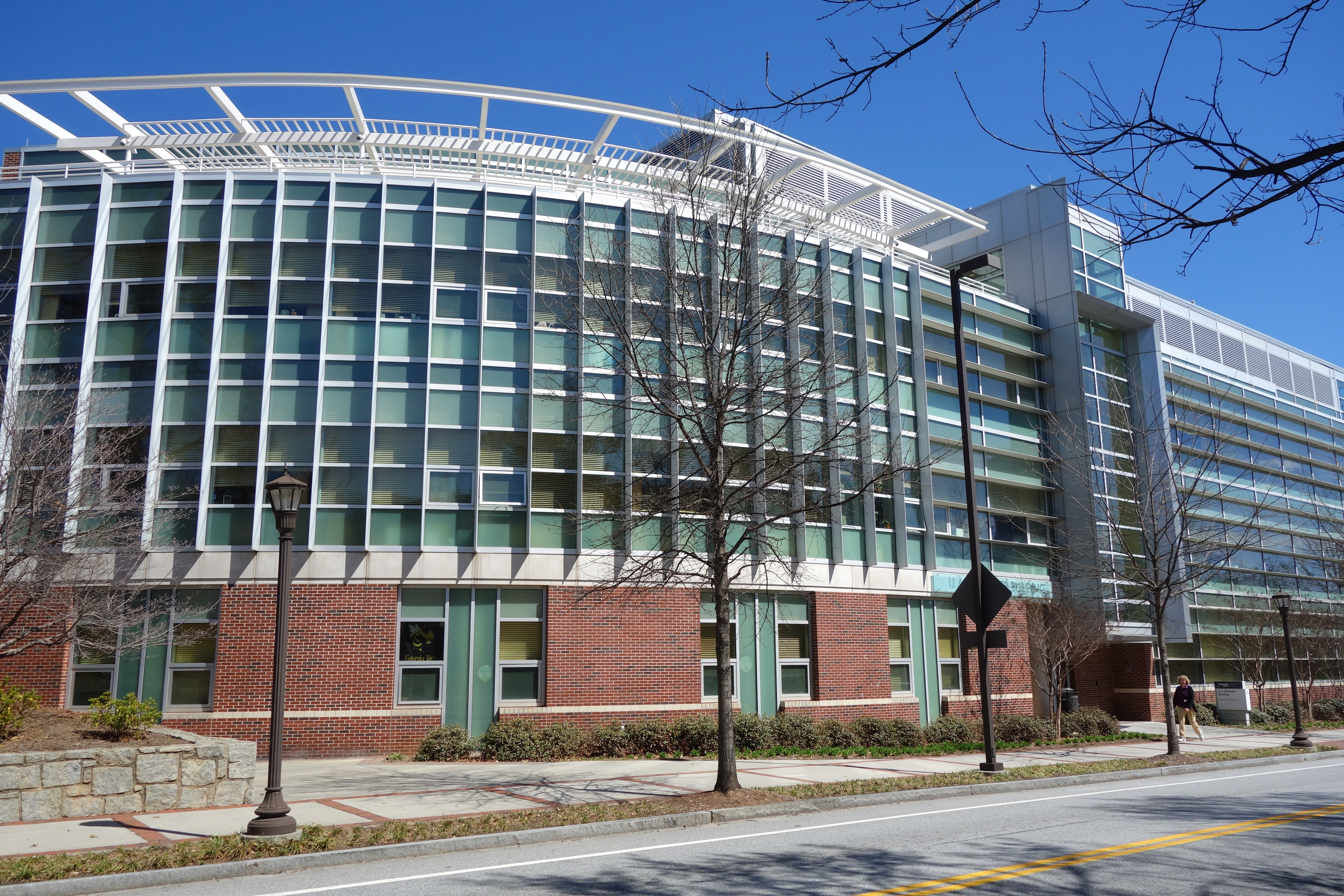 Building on the campus of Georgia Institute of Technology, Atlanta, Georgia, USA.